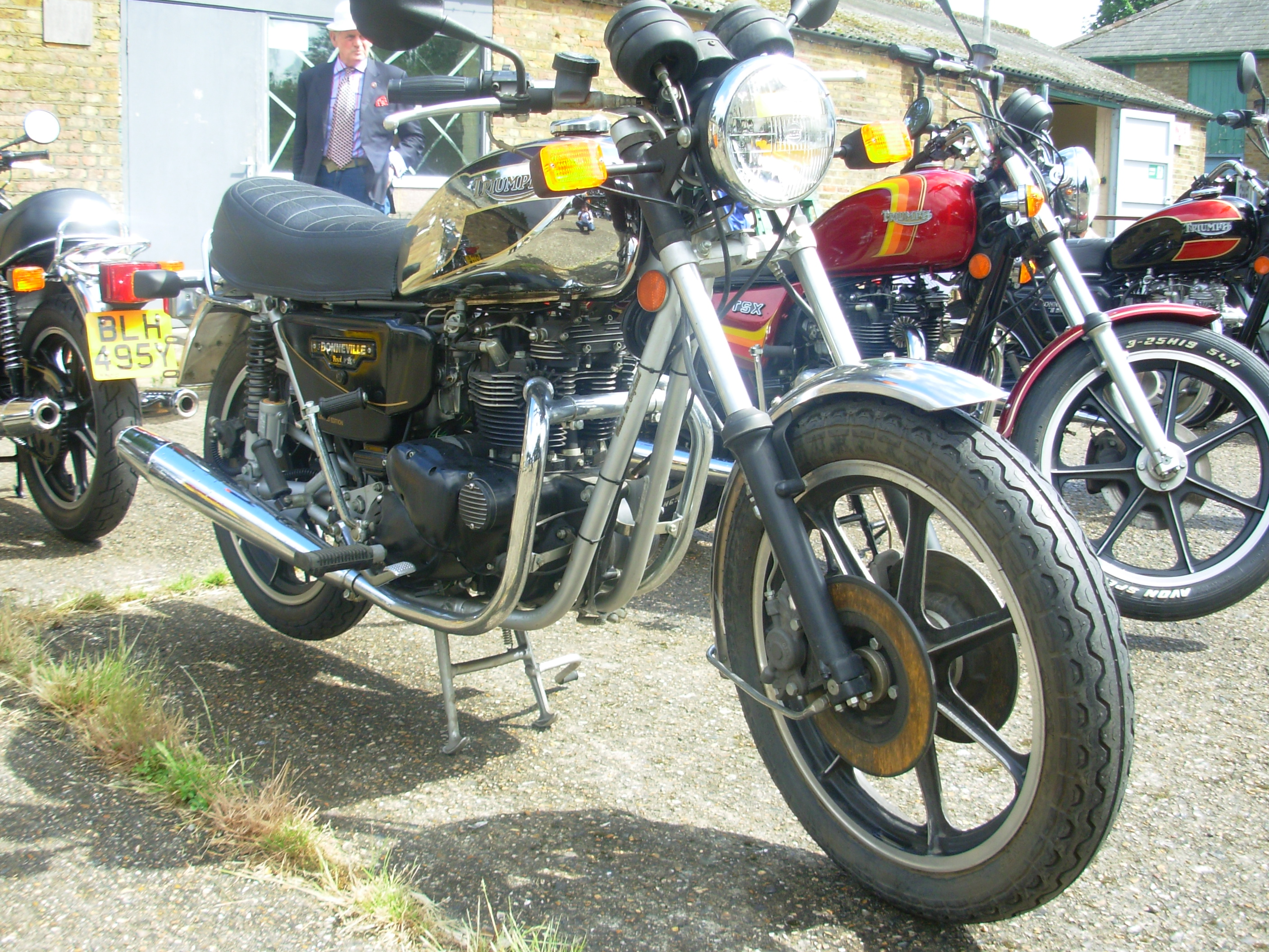 taken at the London Motorcycle Museum 2007